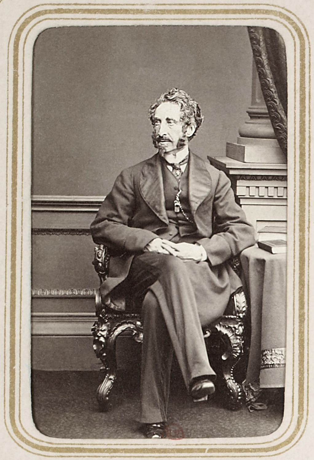 Edward Bulwer-Lytton, 1st Baron Lytton (1803-0873), british politician, poet, playwright and novelist.